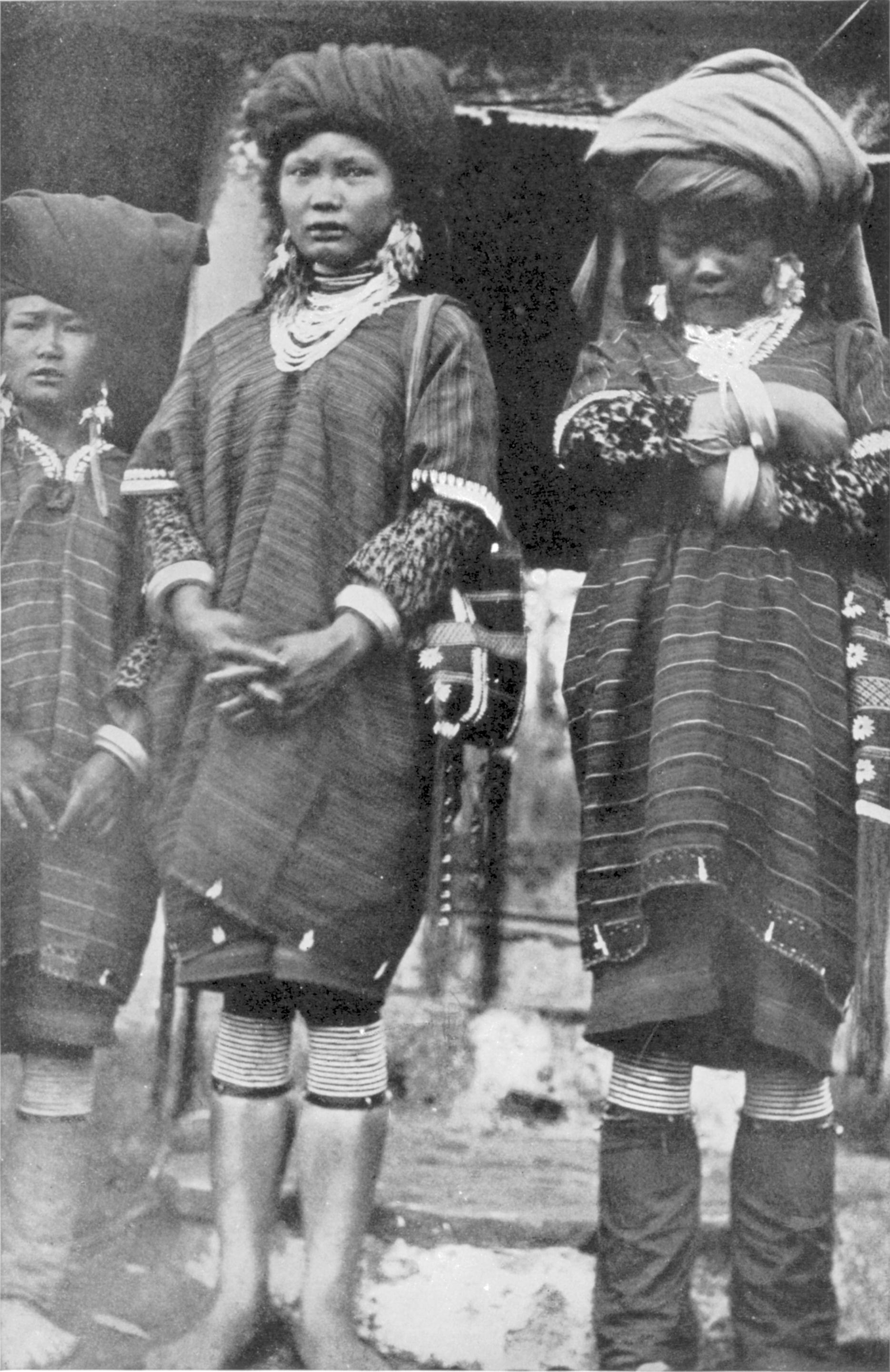 TAUNGYO GIRLS FROM THE OPEN COUNTRY: BURMA The gaiters worn by the girl on the right are to protect her against leeches. The earrings and bracelets are of silver.